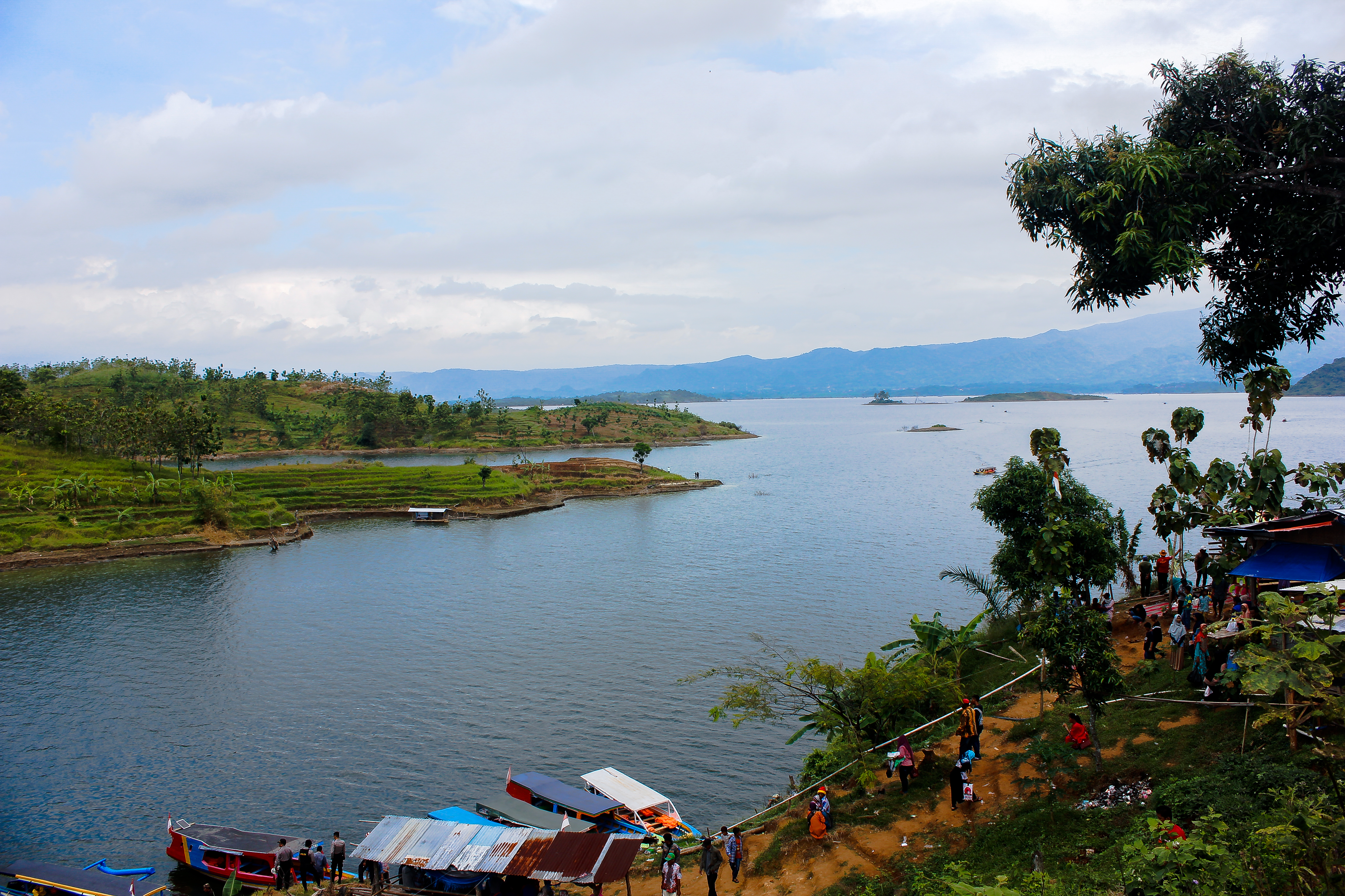 This photo was taken at Jatigede Reservoir located in Sumedang District It is located around 3KM of PLTA Jatigede and 84KM from Bandung This Jatigede Reservoir is a dike dam in Cimanuk River in Sumedang Regency, West Java, Indonesia. It is located 19 km east of Sumedang city. Dam construction began in 2008 and completed in 2015.